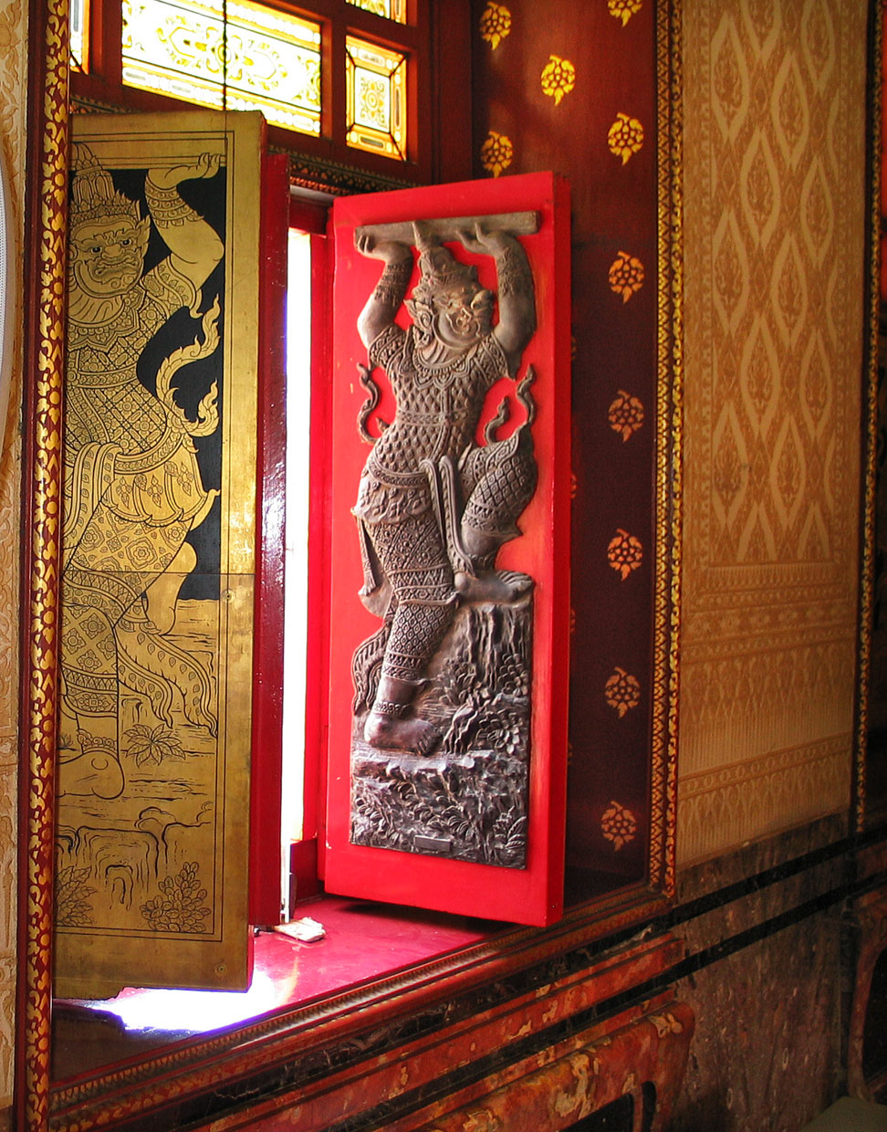 Window shutter, Ubosot of Wat Benchamabophit (Marble Temple), Bangkok, Thailand